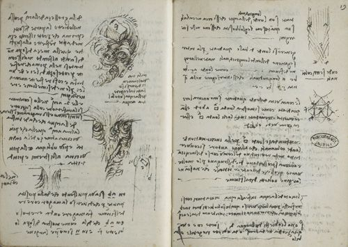 Paris Manuscript F, Folio 18v and 19r, by Leonardo da Vinci, Institut de France